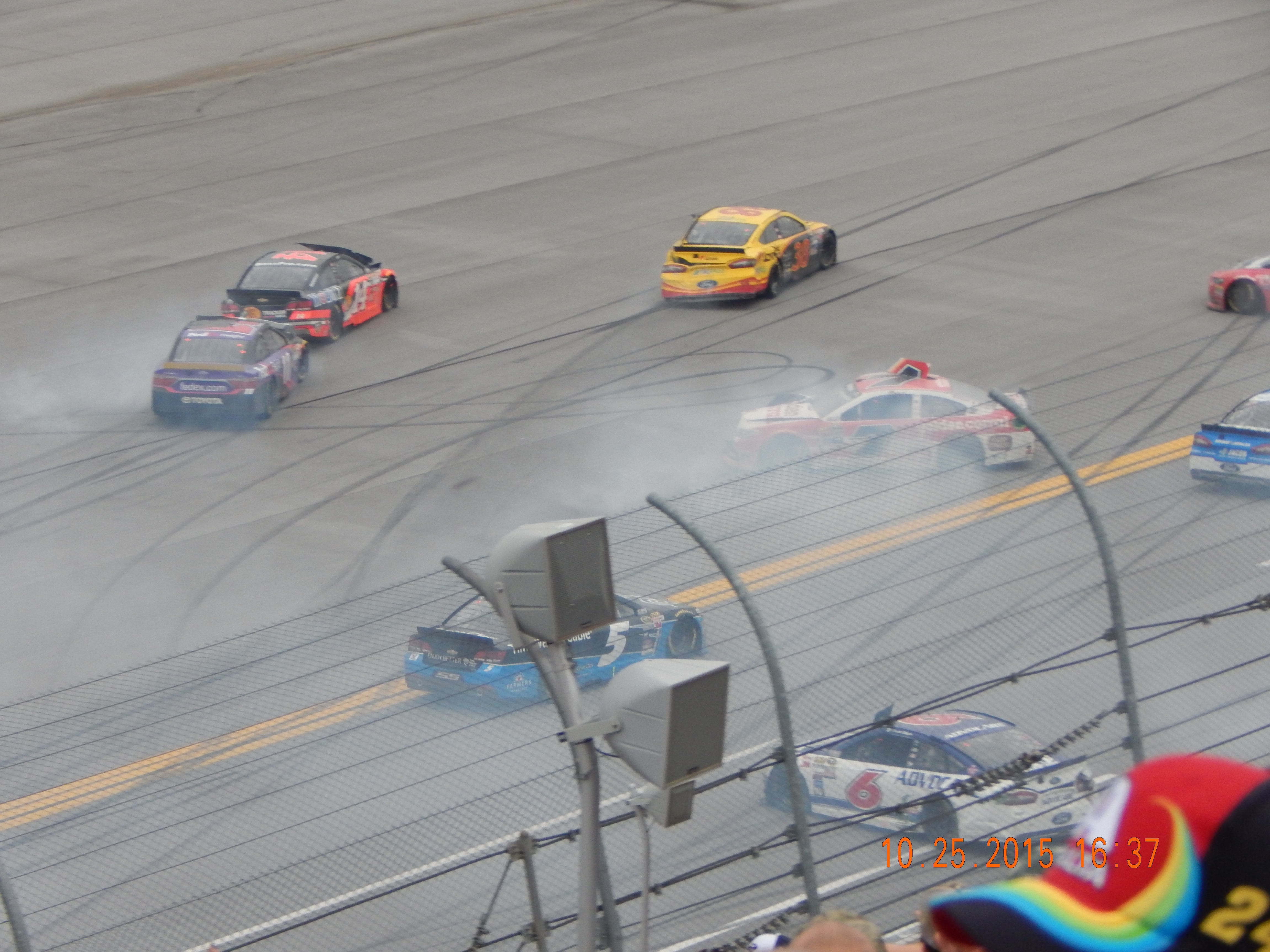 Calamity ensues at Talladega.